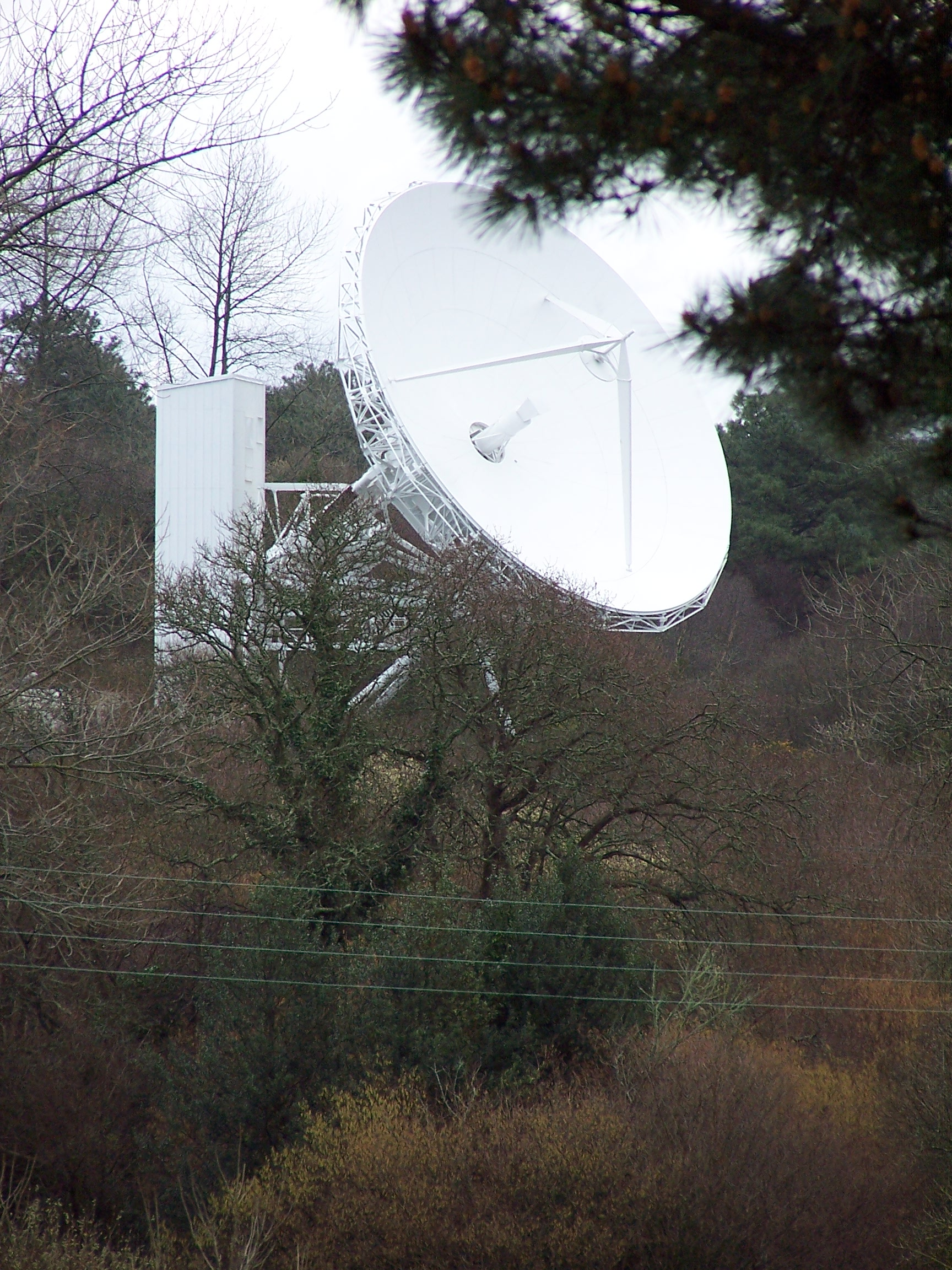 Coast earth station INMARSAT (aerial PB5) Pleumeur-Bodou, France